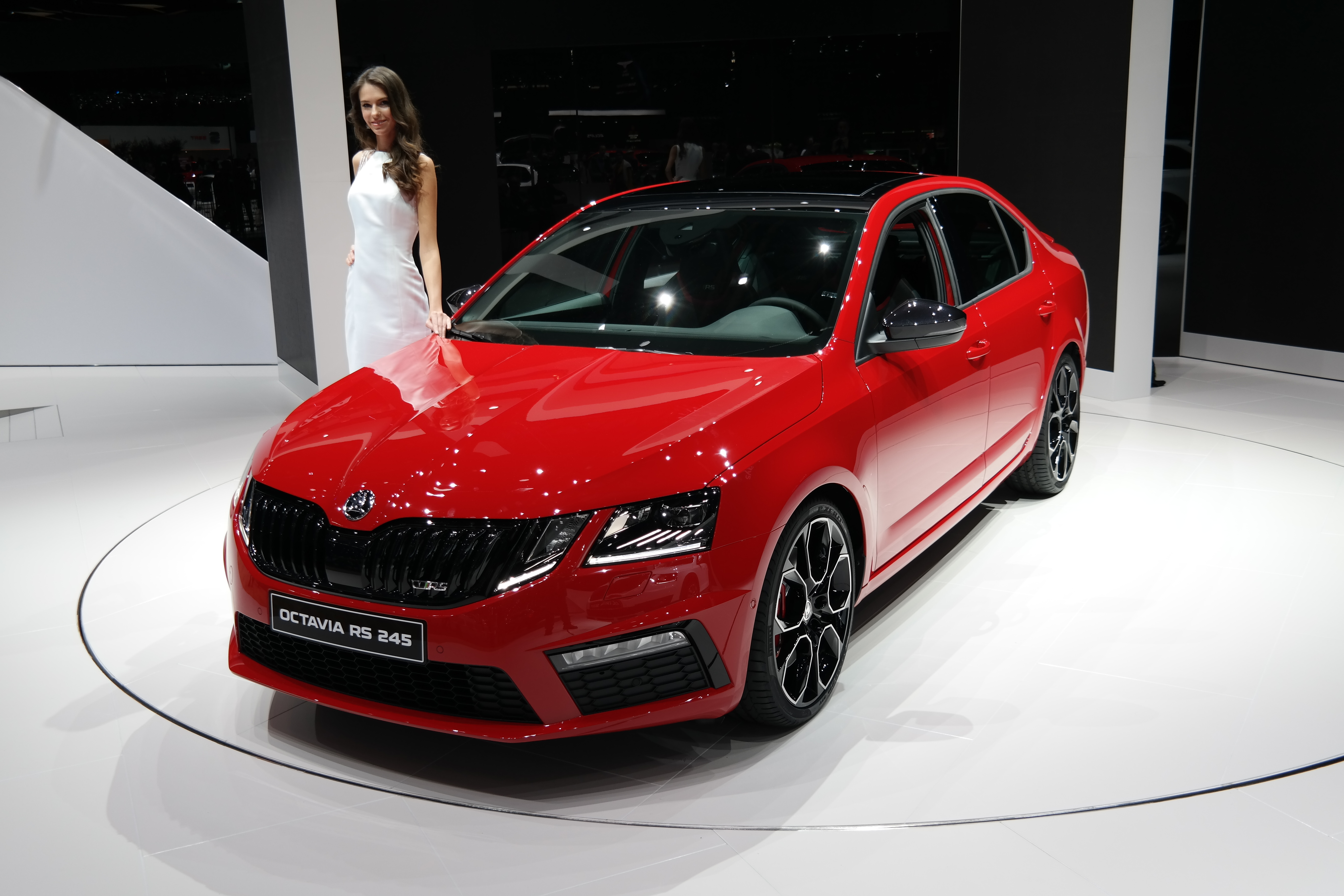 Geneva Motor Show 2017 (photo taken on the first press day)